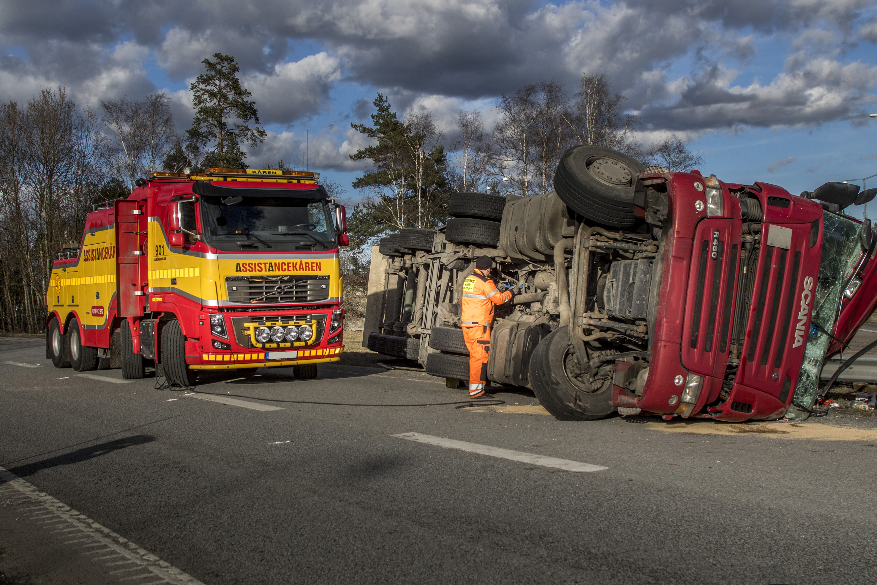 Assistancekaren, Heavy rescue